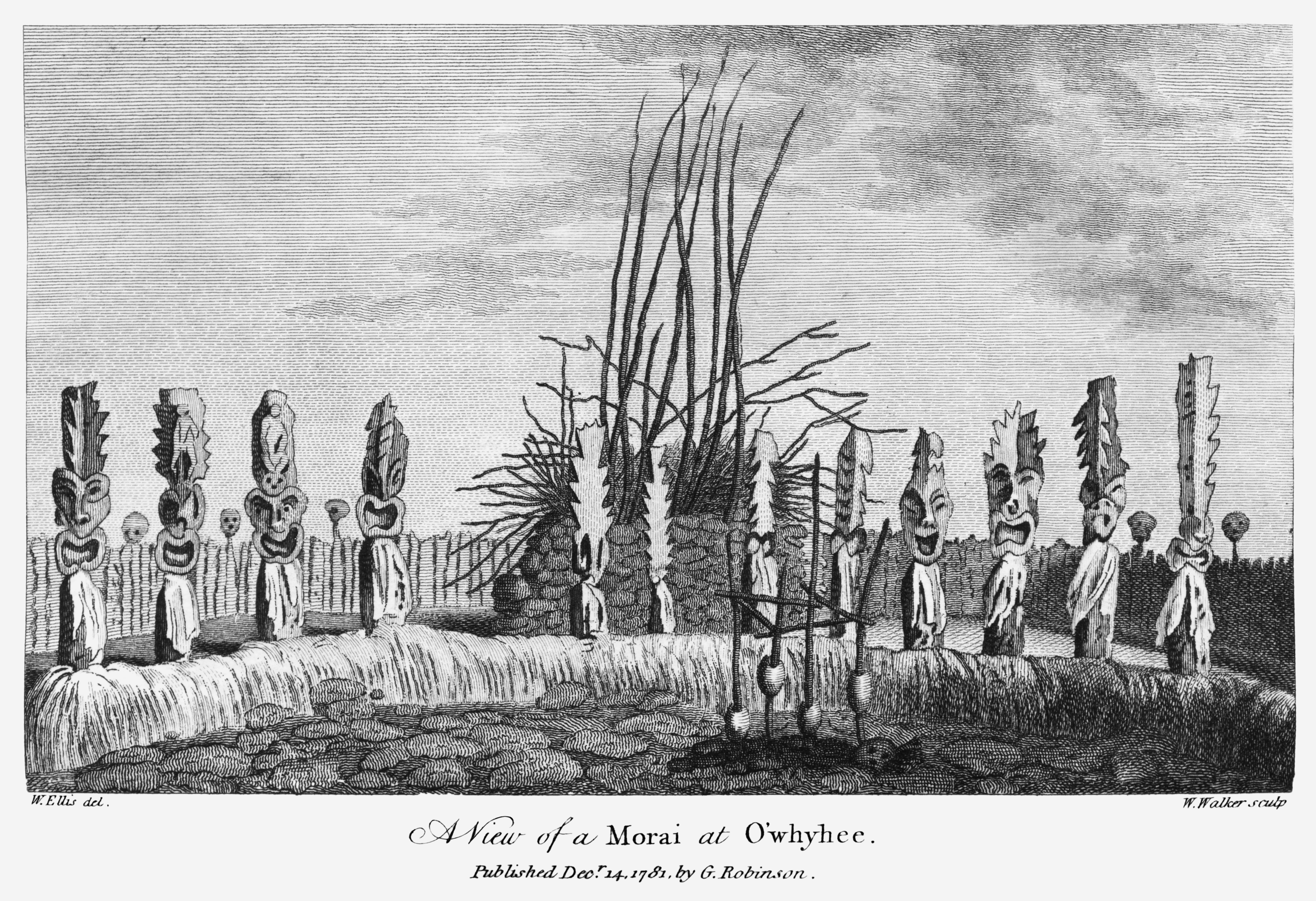 An illustration by William Ellis of the Morai (heiau) at Kealakekua Bay on Hawai'i. Engraved by W. Walker after Ellis [Ellis. 1782. II fp. 180].